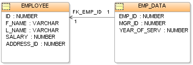 Related tables